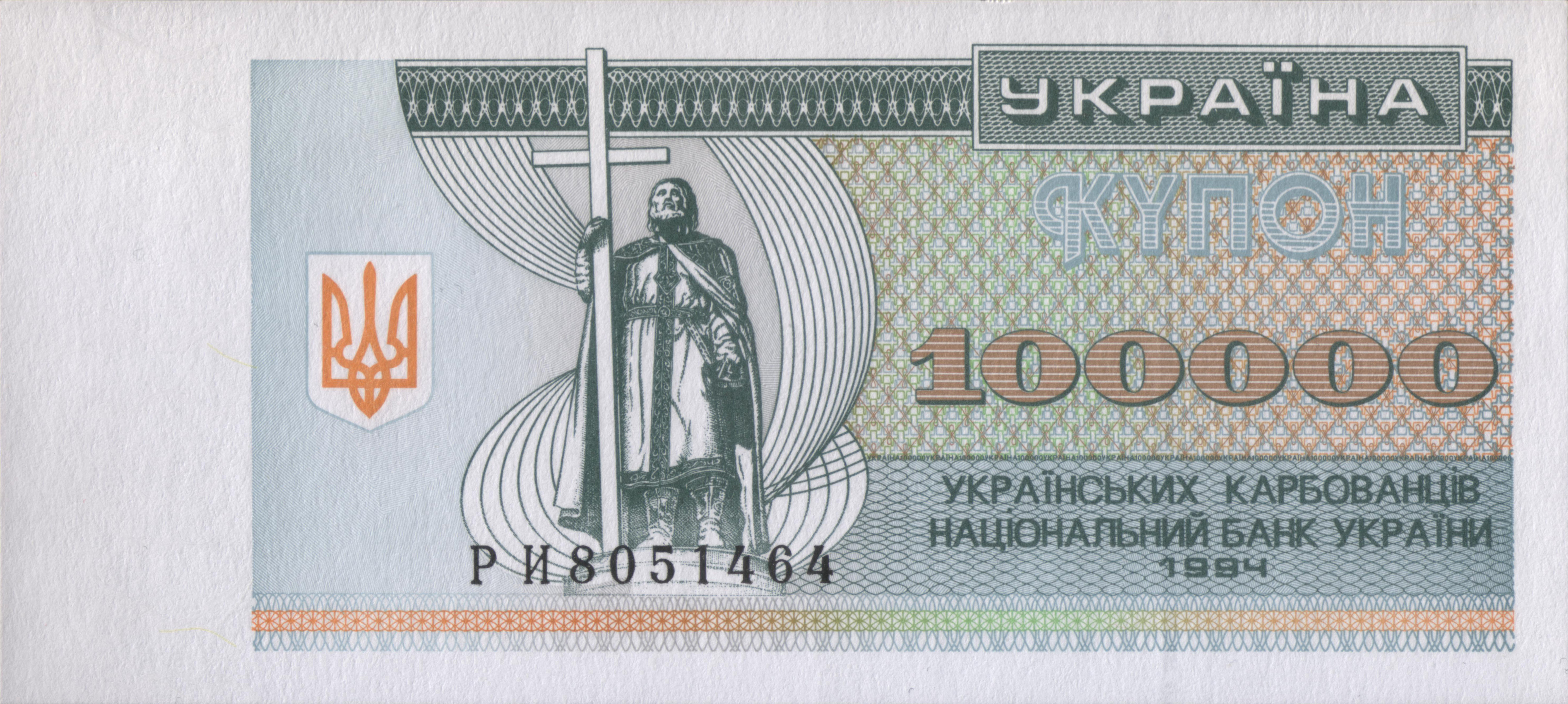 100000 karbovanets (1994)